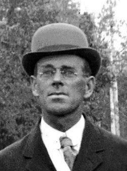 Charles Binderup in 1911 (age 38)